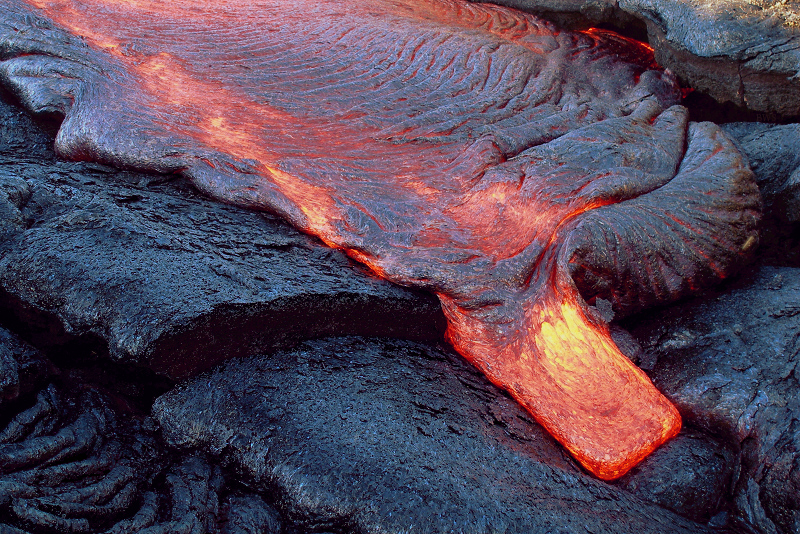 Hawaii Volcanoes National Park, USA, new lava flow near the Royal Gardens subdivision.